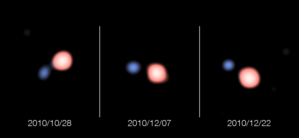 Double star system SS Leporis (17 Lep), created from observations made with the VLT Interferometer at ESO’s Paranal Observatory using the PIONIER instrument. The system consists of a red giant star orbiting a hotter companion. The remarkable image sharpness — 50 times sharper than those from the NASA/ESA Hubble Space Telescope — not only allows the stars to be clearly separated and their orbital motion followed, but also allowed the size of the red giant to be measured more accurately than ever before. Note that the stars have been artificially coloured to match their known temperatures.